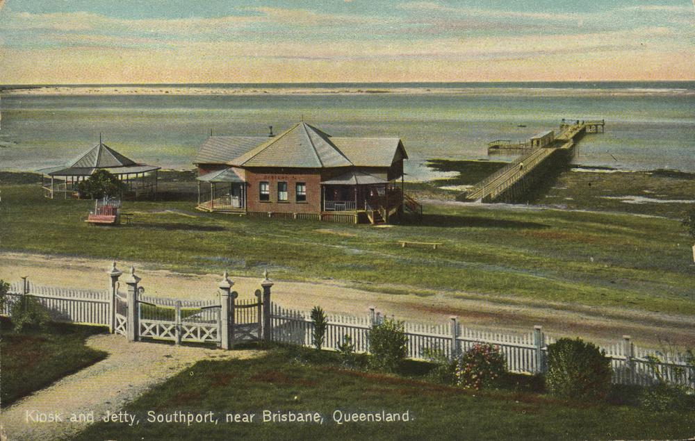 Kiosk and jetty at Southport, Queensland. Part of the Coloured Shell Series of postcards. Southport is now a suburb of the Gold Coast in South East Queensland.